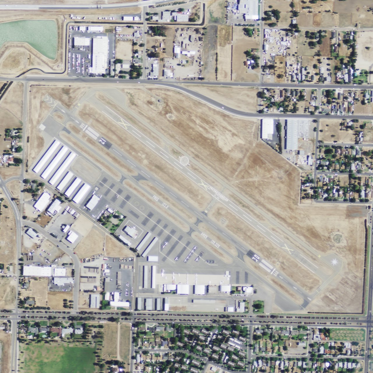 USGS digital orthophoto of Fresno Chandler Executive Airport in California